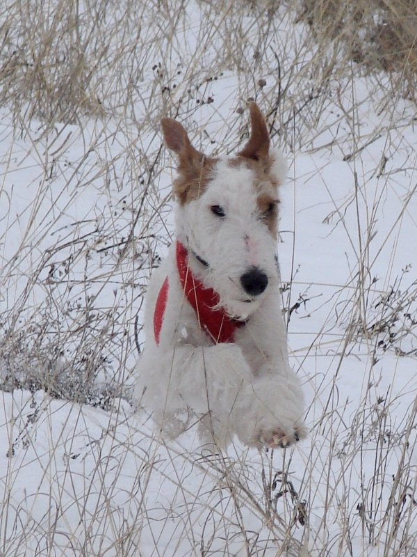 Wire fox terrier from the kennel Vulpinus Venator. Winter fox hunt. Official name - Konigstern Naty Korund vor Vulpinus Venator, home name - Rudik. Ukrane, Zaporizhzha.